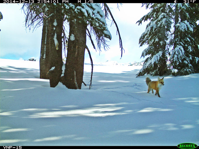 Sierra Nevada red fox makes first reappearance in Yosemite in nearly 100 years.